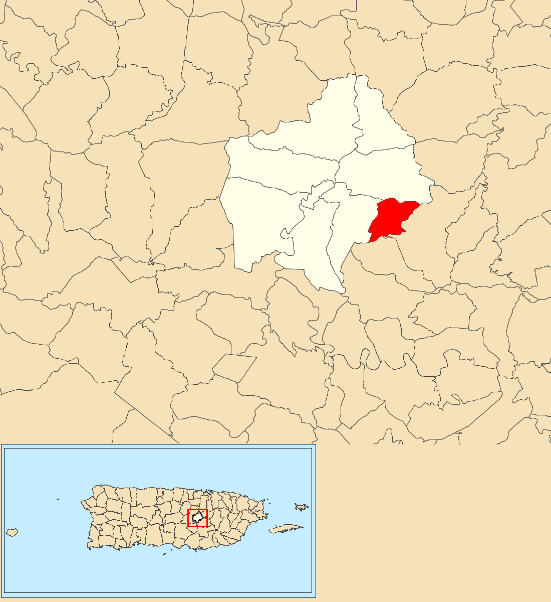 Cejas, Comerío, Puerto Rico locator map